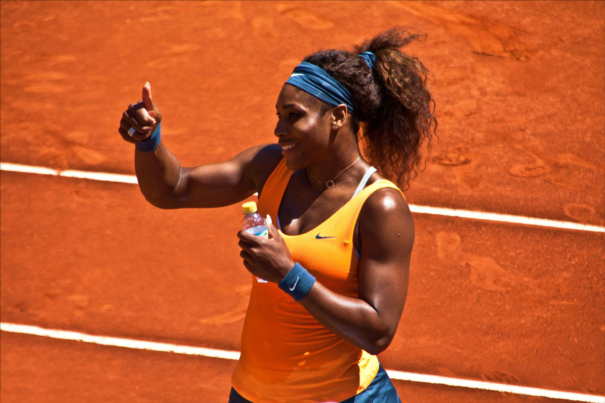 Serena Williams in Madrid after claiming the title over Sharapova